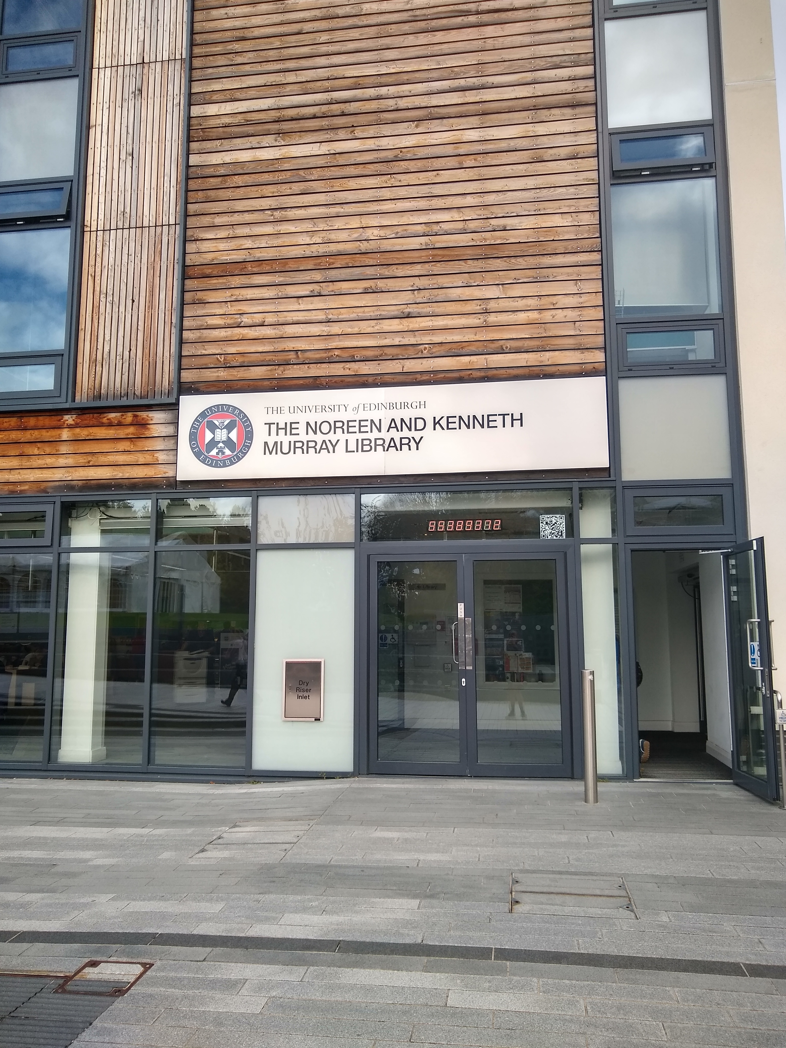 This is a photograph of the Murray Library in the University of Edinburgh.